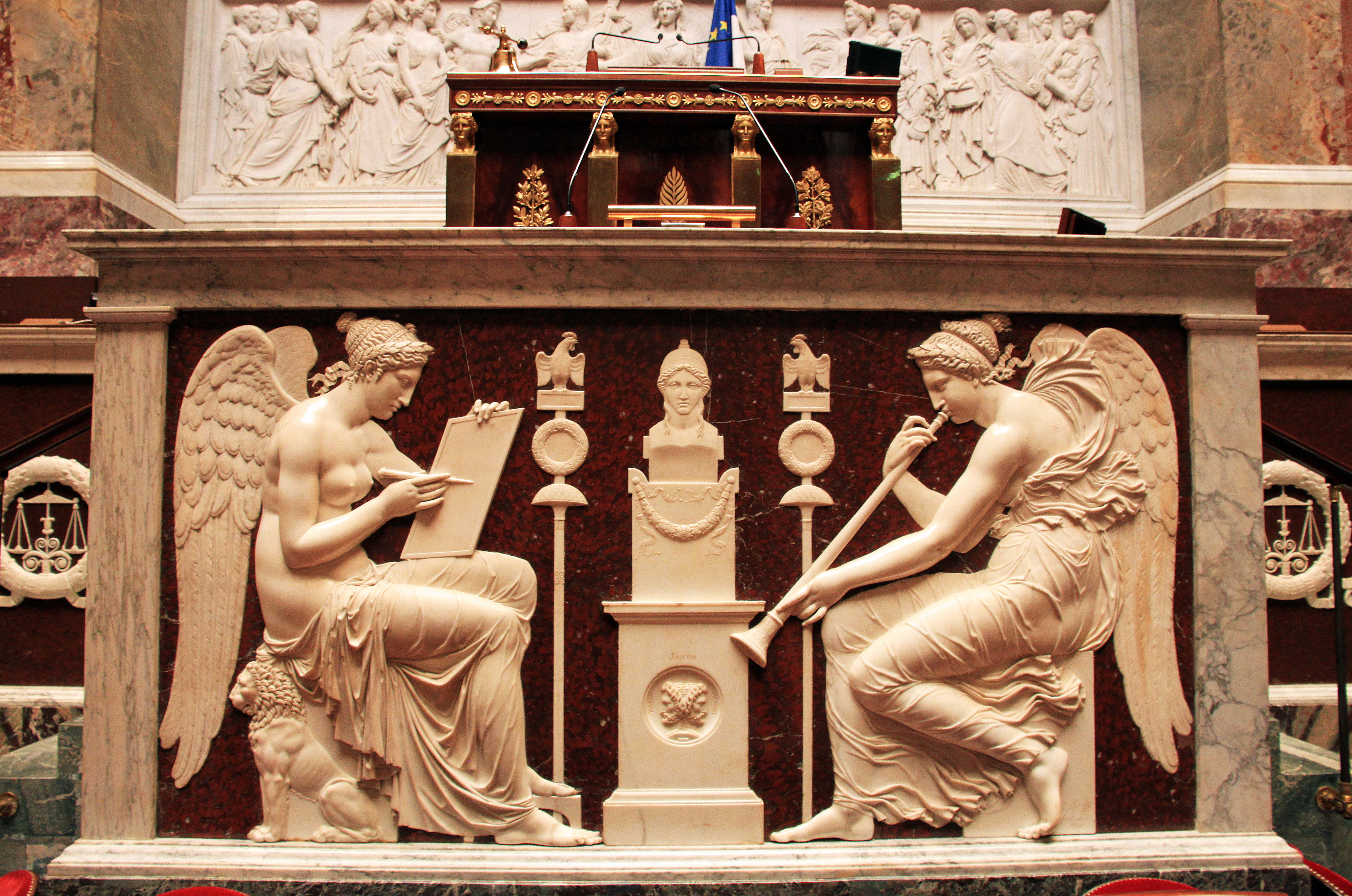 Platform of the hemicycle of the Palais Bourbon. The bas-relief on the foreground depicts "La Renommée embouchant sa trompette publie les grands évènements de la Révolution et l’Histoire écrit le mot République", and has been sculpted by François-Frédéric Lemot (1772-1827) in 1798. It is one of the relics from the original room of the Council of Five Hundred.